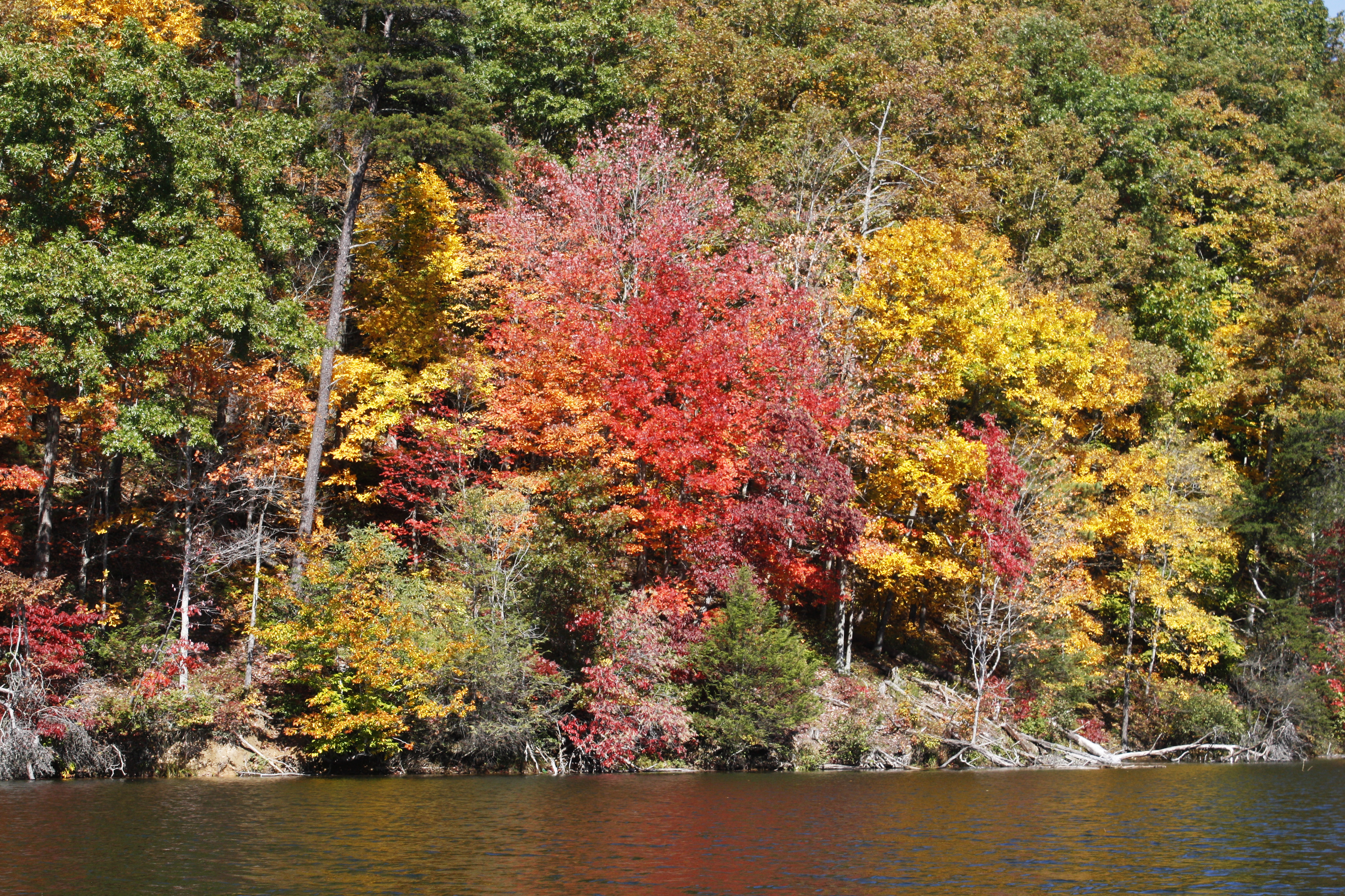 Even in the fall the park still has alot of beauty and activity to offer guests.- AA